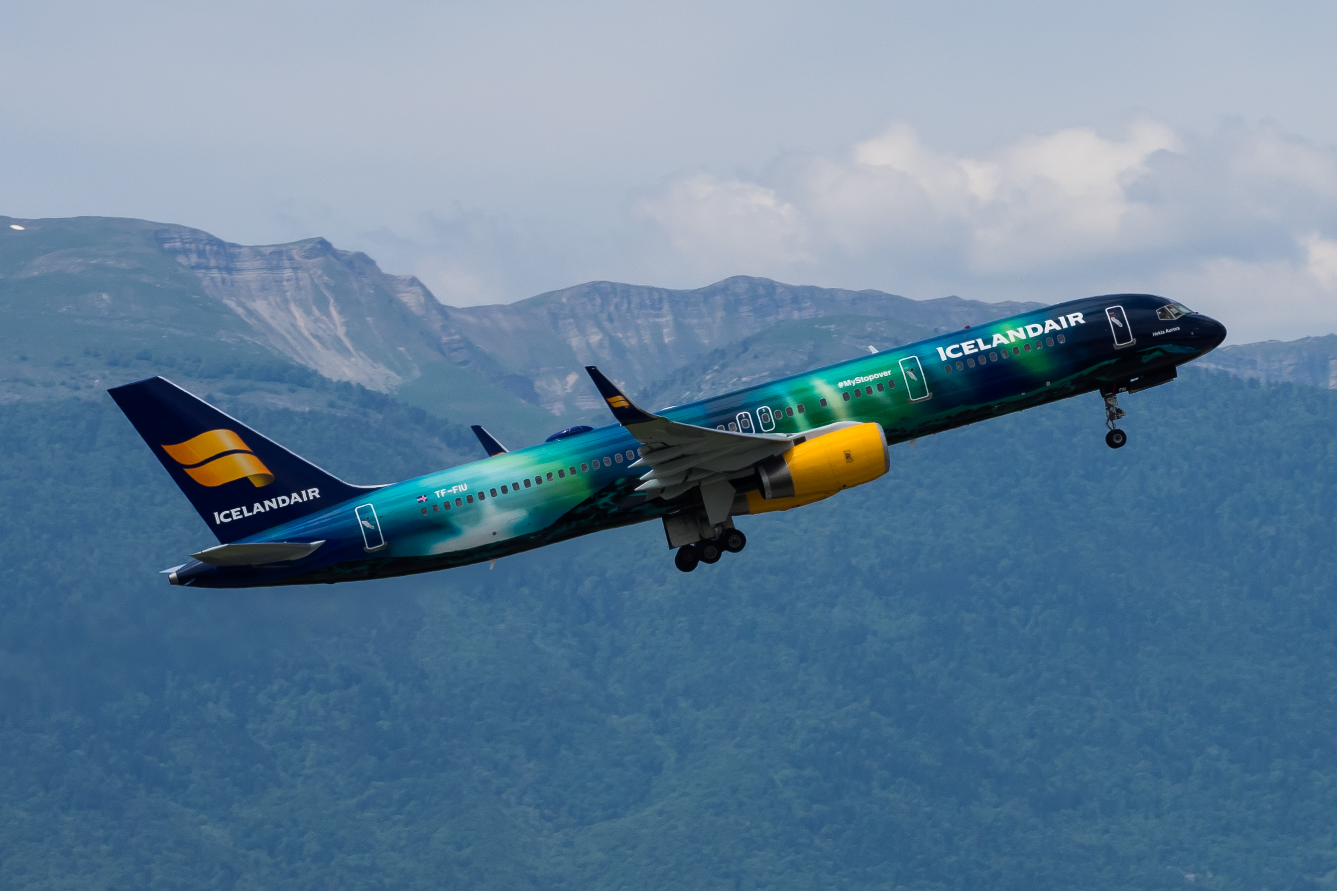 Boeing 757 of Icelandair at Geneva International Airport